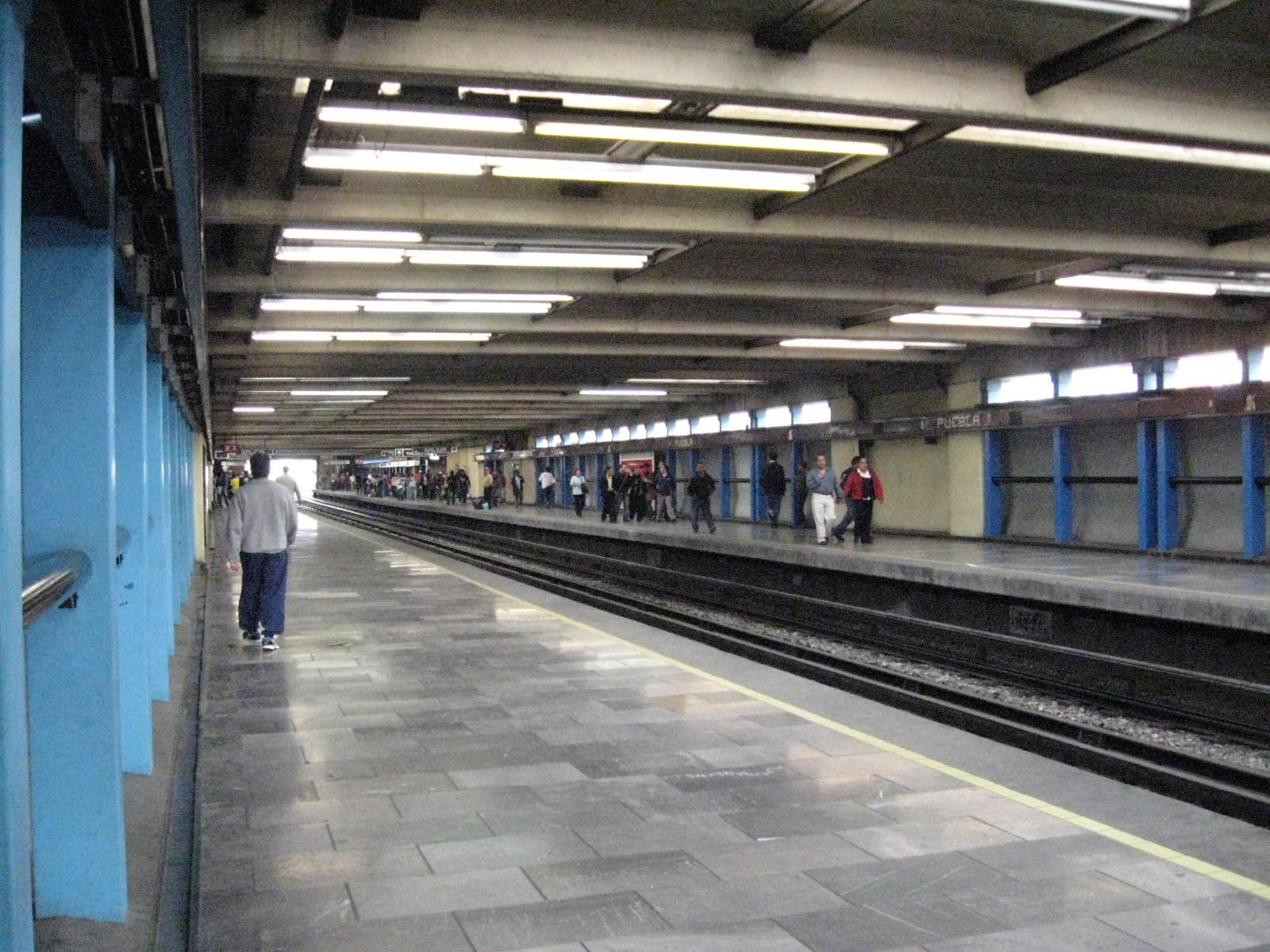 View of eastbound platform of Metro station Puebla on Line 9 of the Mexico City Metro system